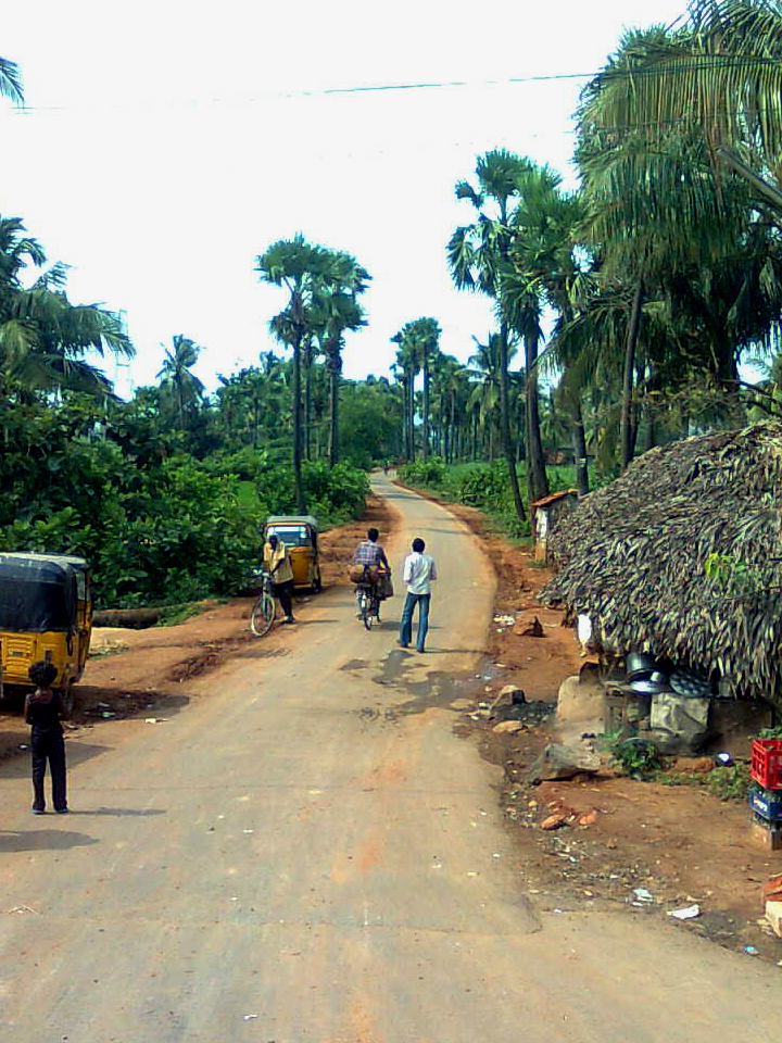 A Rural road near Maadugula, Visakhapatnam district